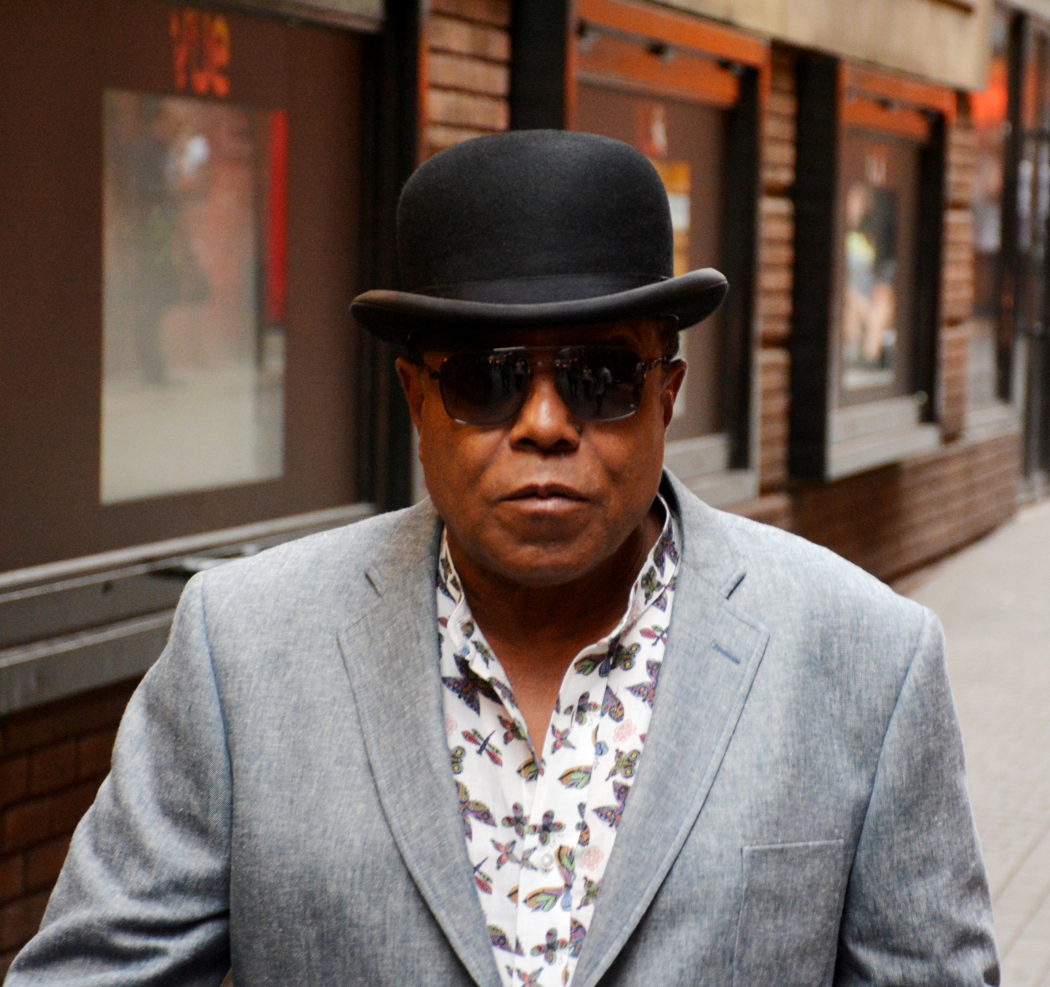 Tito Jackson (American singer–songwriter and guitarist) attends the UK premiere of „Stratton“ at VUE Cinema, West End, London